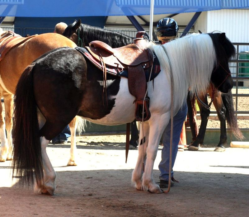 Icelandic Pony